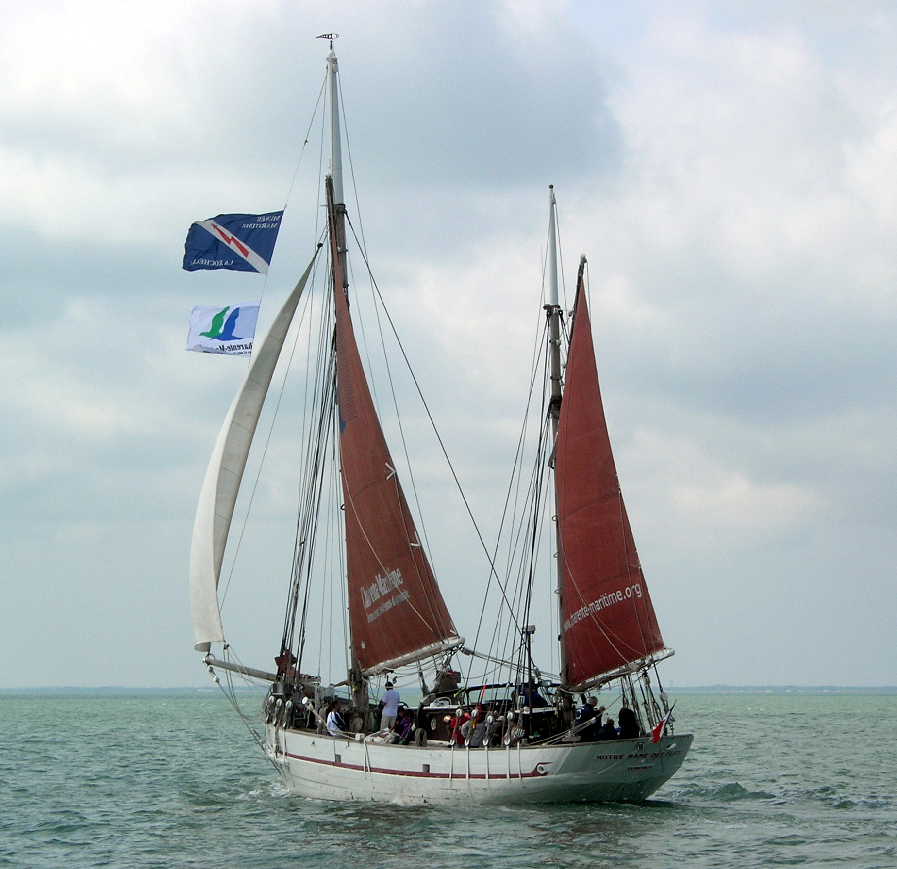 Description =Notre Dame des Flots a la Rochelle Source =Photo taken by Remi Jouan Date =Aout 2006 Author =Remi Jouan